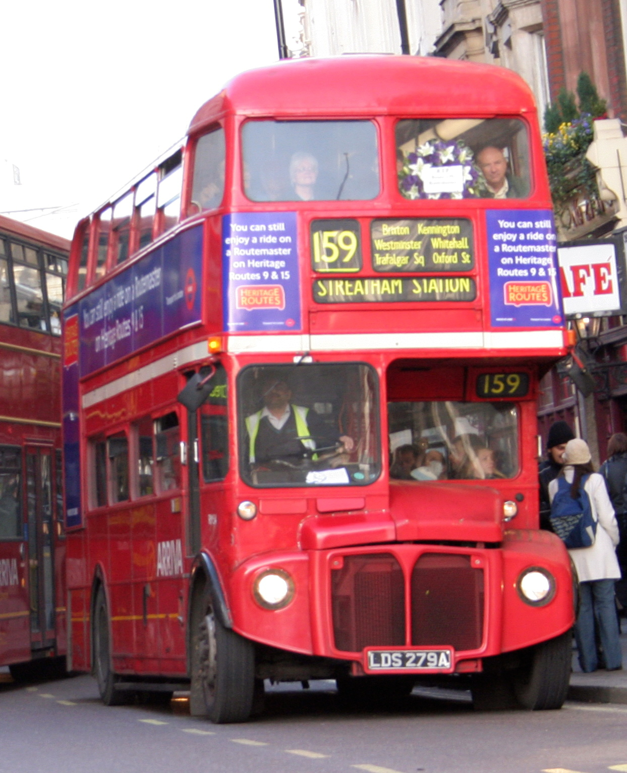 Arriva London South Routemaster bus RM54 (reg. LDS 279A), operating London Buses route 159 on the last day of non-heritage Routemaster operation in London. It's pictured here leaving Stop M (Whitehall / Trafalgar Square), heading south down Whitehall in Westminster en route to Streatham Station. Pictured here operating its last journey on the day, the first of the VLA class that were entering service as the Routemasters replacement on the 159 is seen here passing it. It's claimed that due to traffic delays, RM54 was actually the last Routemaster to be in service, having reached Streatham station after the last official bus (RM2217) running in the same direction but terminating short of the station, had reached its terminus at Streatham Hill, Telford Avenue (Brixton garage). RM54 was delivered to London Transport in September 1959, registered VLT 54. Having been sold out of London in the 1985, and operated in Scotland (where it was re-registered LDS 279A in 1990 by Western Scottish), and even bought for preservation in Blackburn in the late 1990s, it was one of many buses bought back by London Buses in 2002 and refurbished, for further use. After withdrawal from the 159, it has again entered preservation, and seen service with Ensignbus.